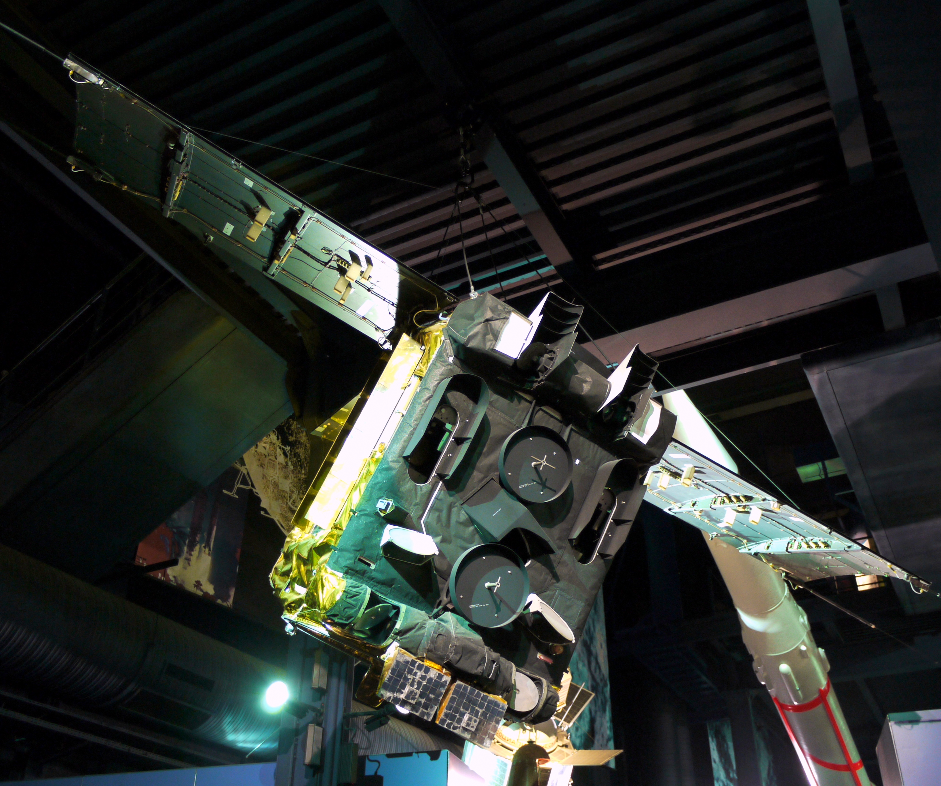 Meteorological satellite ITOS NOAA (1970), Museum of Air and Space Paris, Le Bourget (France)